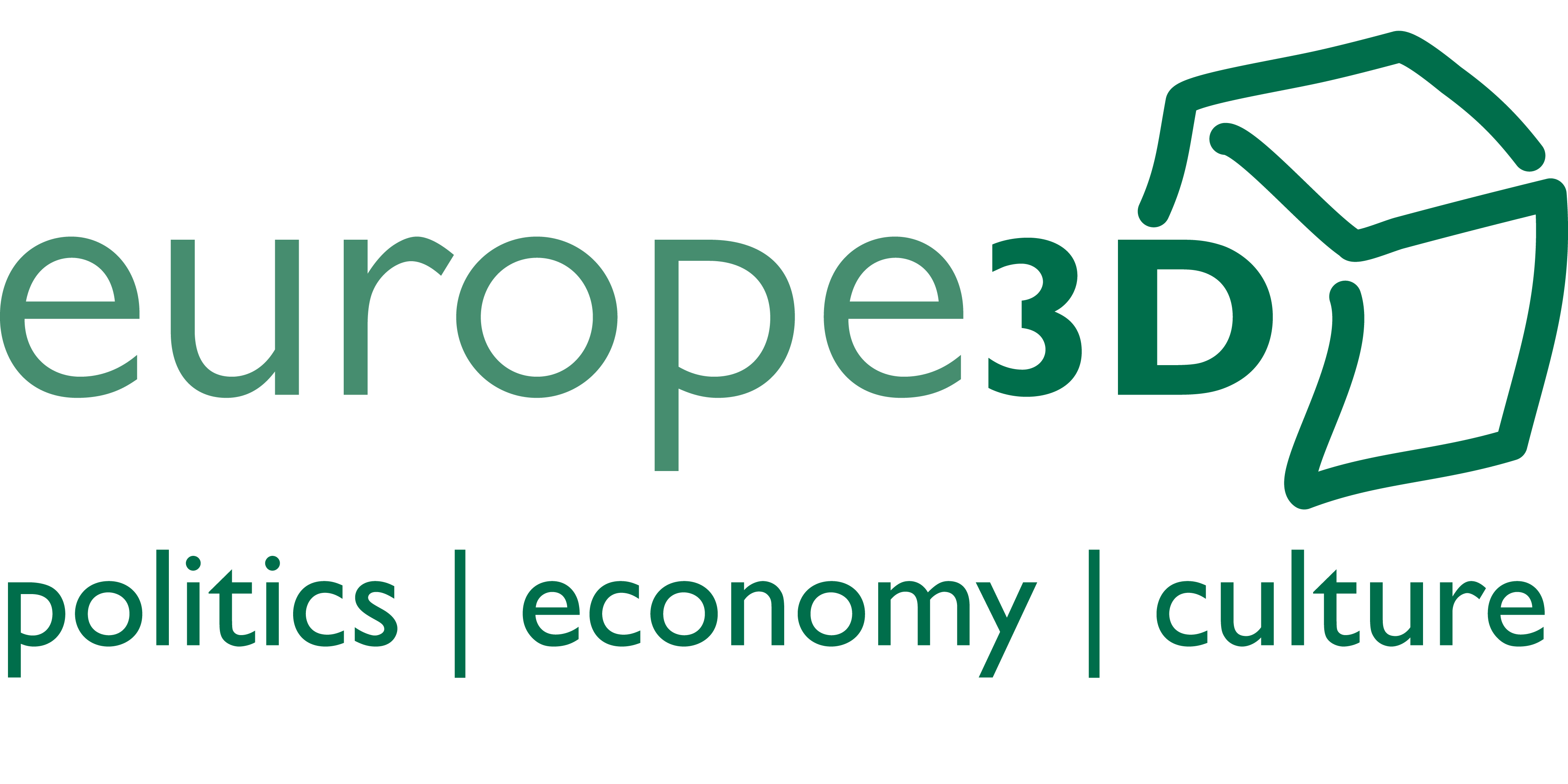 Europe3D, ESTIEM